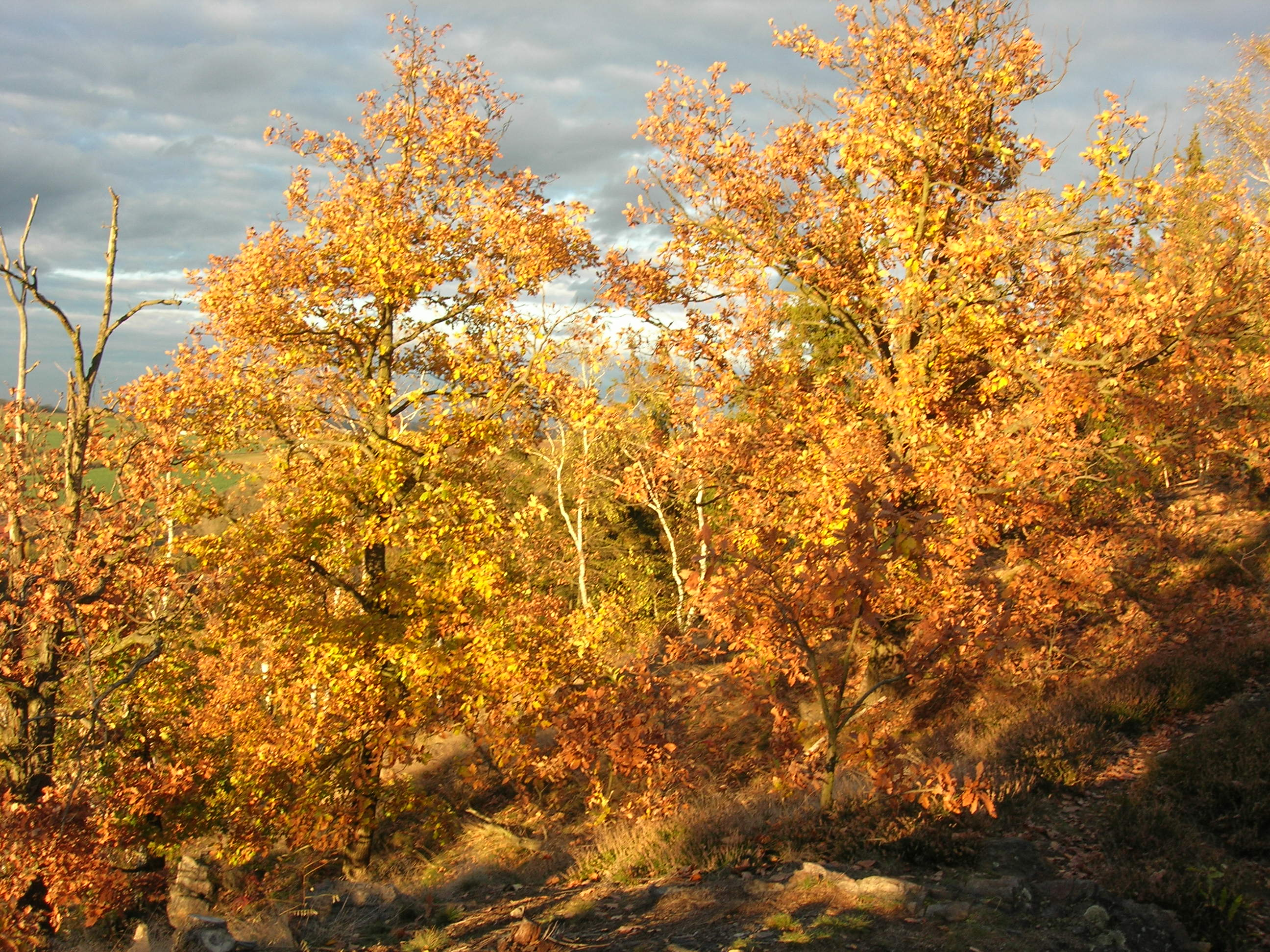 Nature reserve Údolí Únětického potoka near Suchdol, part of Prague, Czech Republic